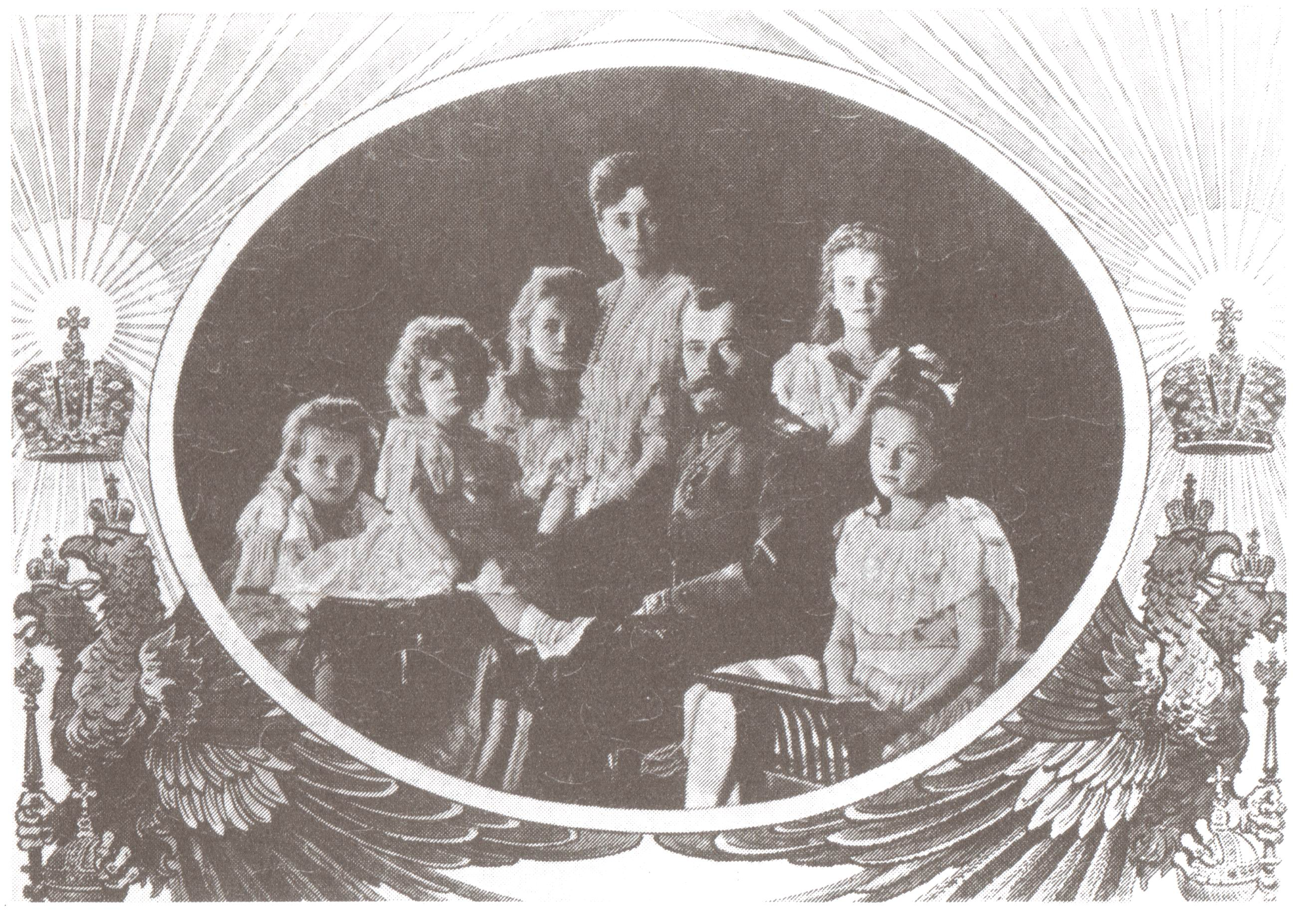 Nicholas II of Russia with the family (left to right): Anastasia, Alexei, Maria, Alexandra Fyodorovna, Nicholas II, Olga, and Tatiana.